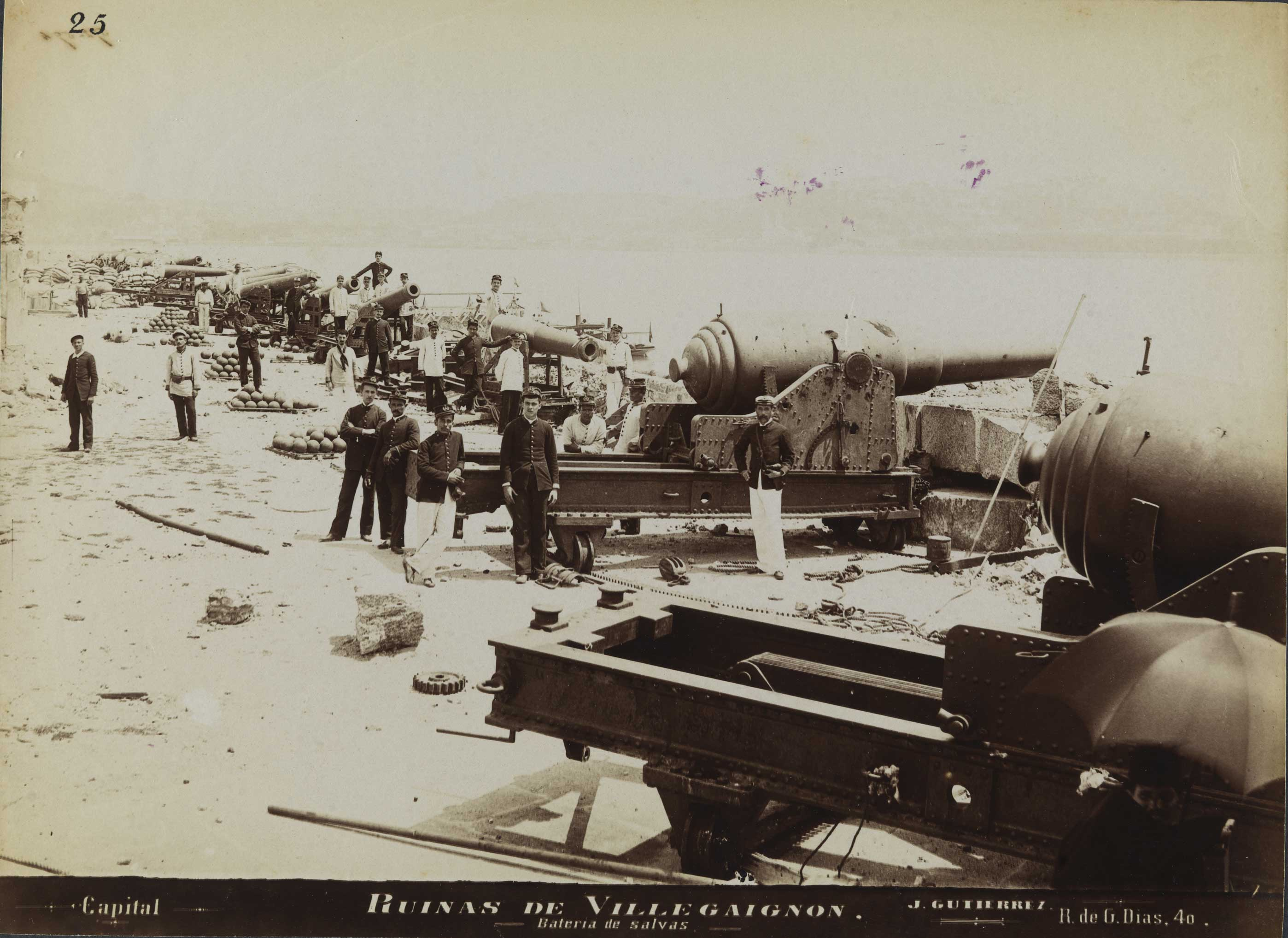 Naval guns at the Isle Seripige in 1898.